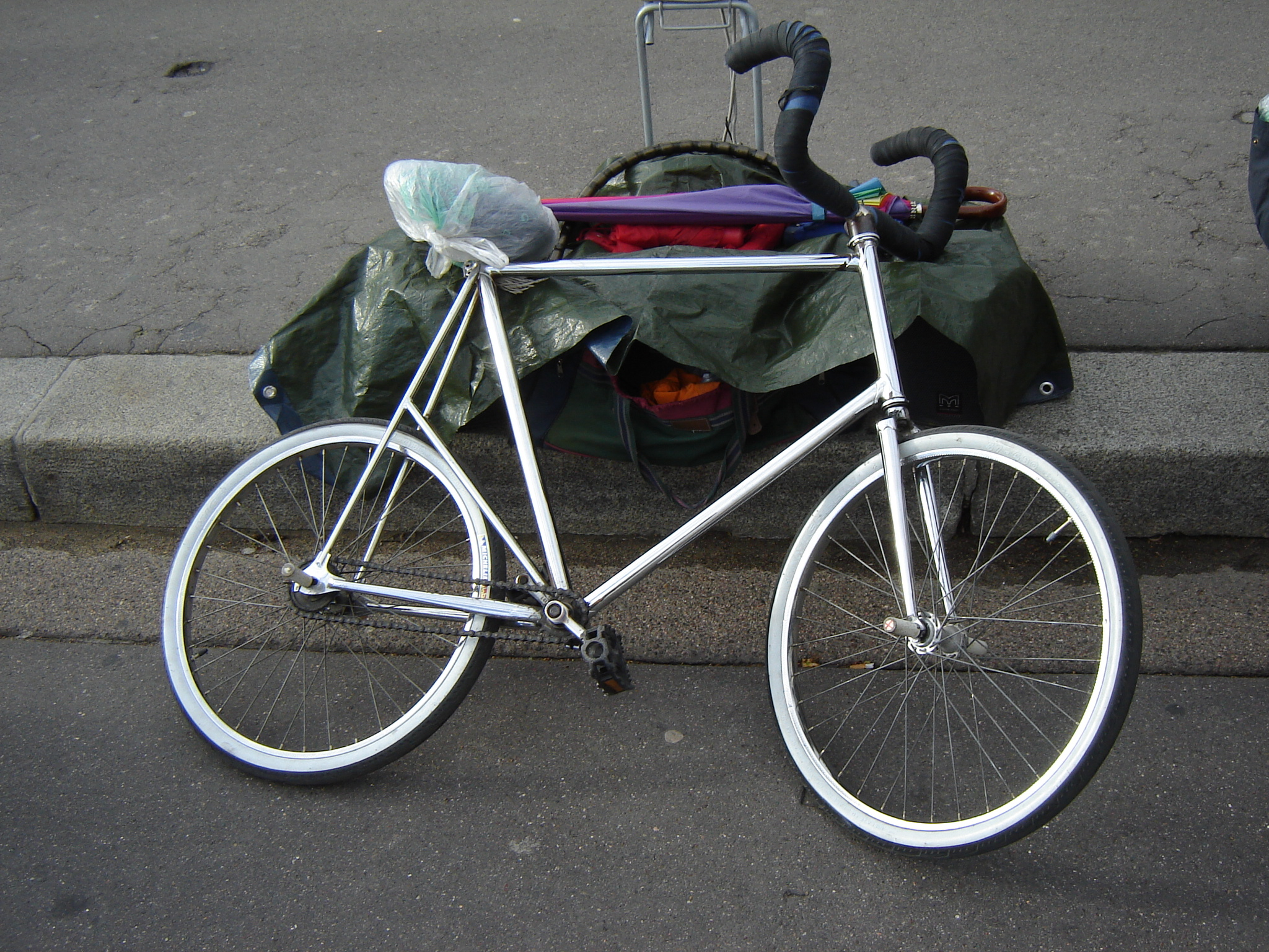 bicycle used by a street performer in Paris (France)